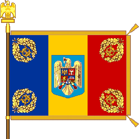 The flag of the Romanian Army (General Staff model).